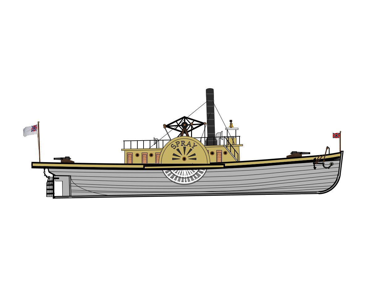 SPRAY StGbt: a. 2 guns CSS SPRAY was a side-wheel steam gunboat. She operated in the vicinity of the naval station at St. Marks, Fla., during 1863-65, and was the object of much attention by the Federal forces in that vicinity. She was commanded by Lts. C. W. Hays, CSN, and H. L. Lewis CSN. SPRAY surrendered to the Federal forces in May 1865.